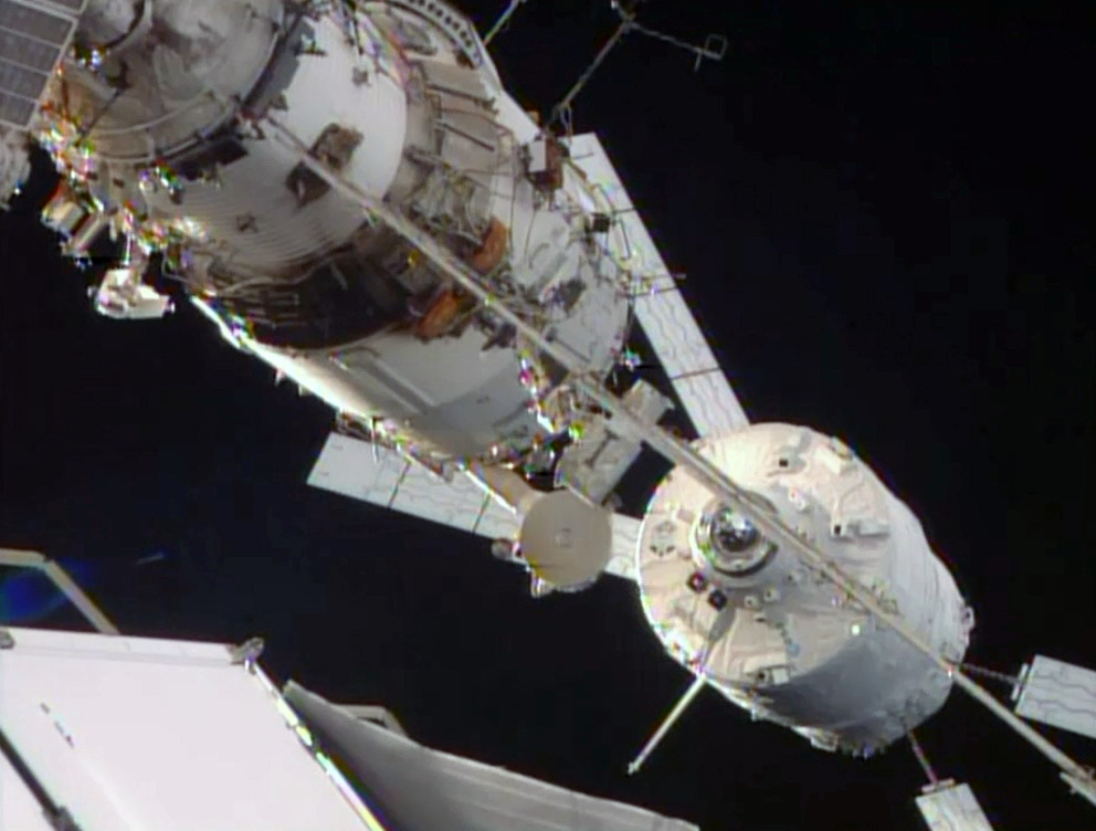 Automated transfer vehicle 5 (ATV-5) five minutes before docking at the ISS